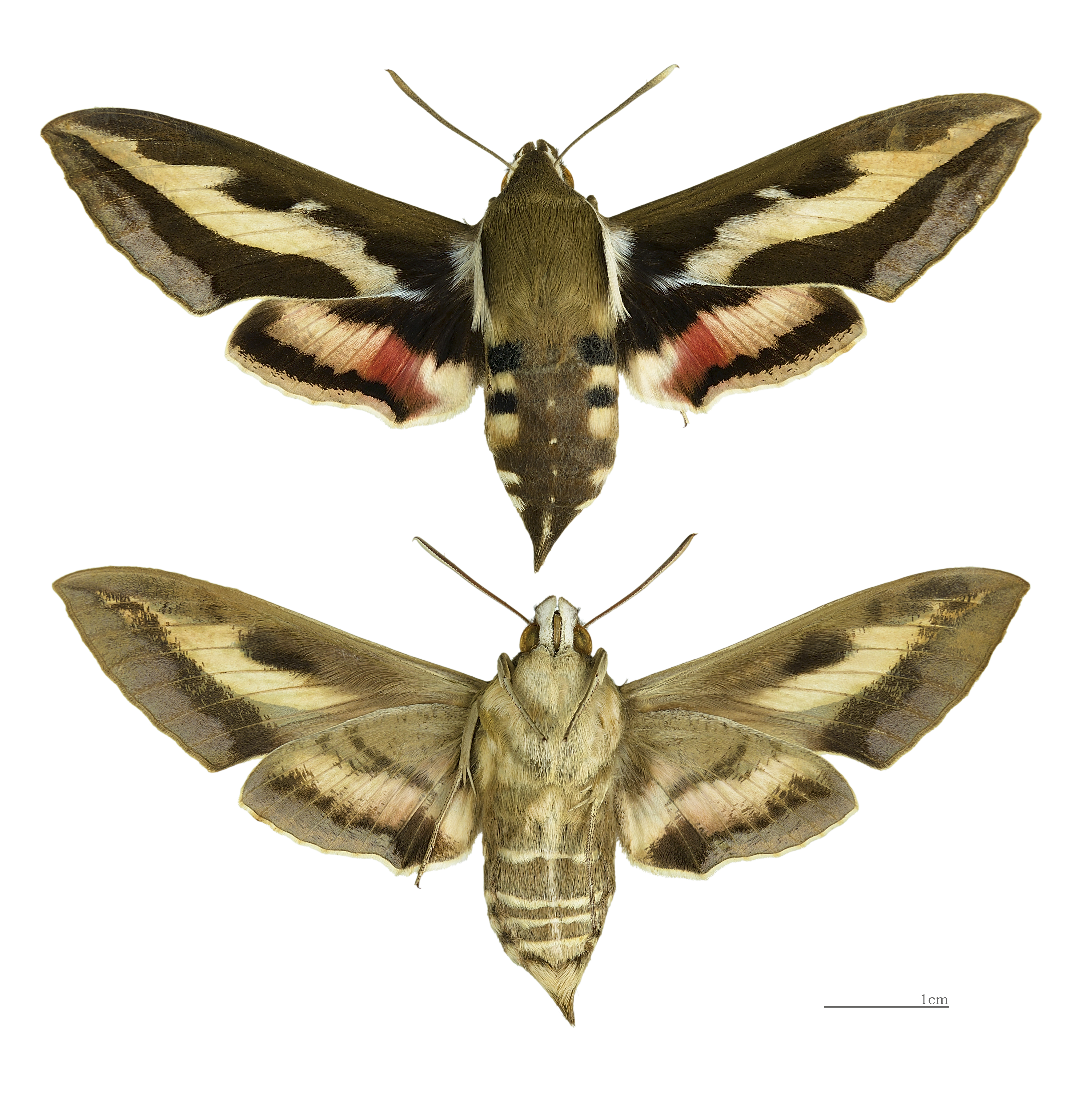 Bedstraw Hawk-Moth - Two views of same specimen